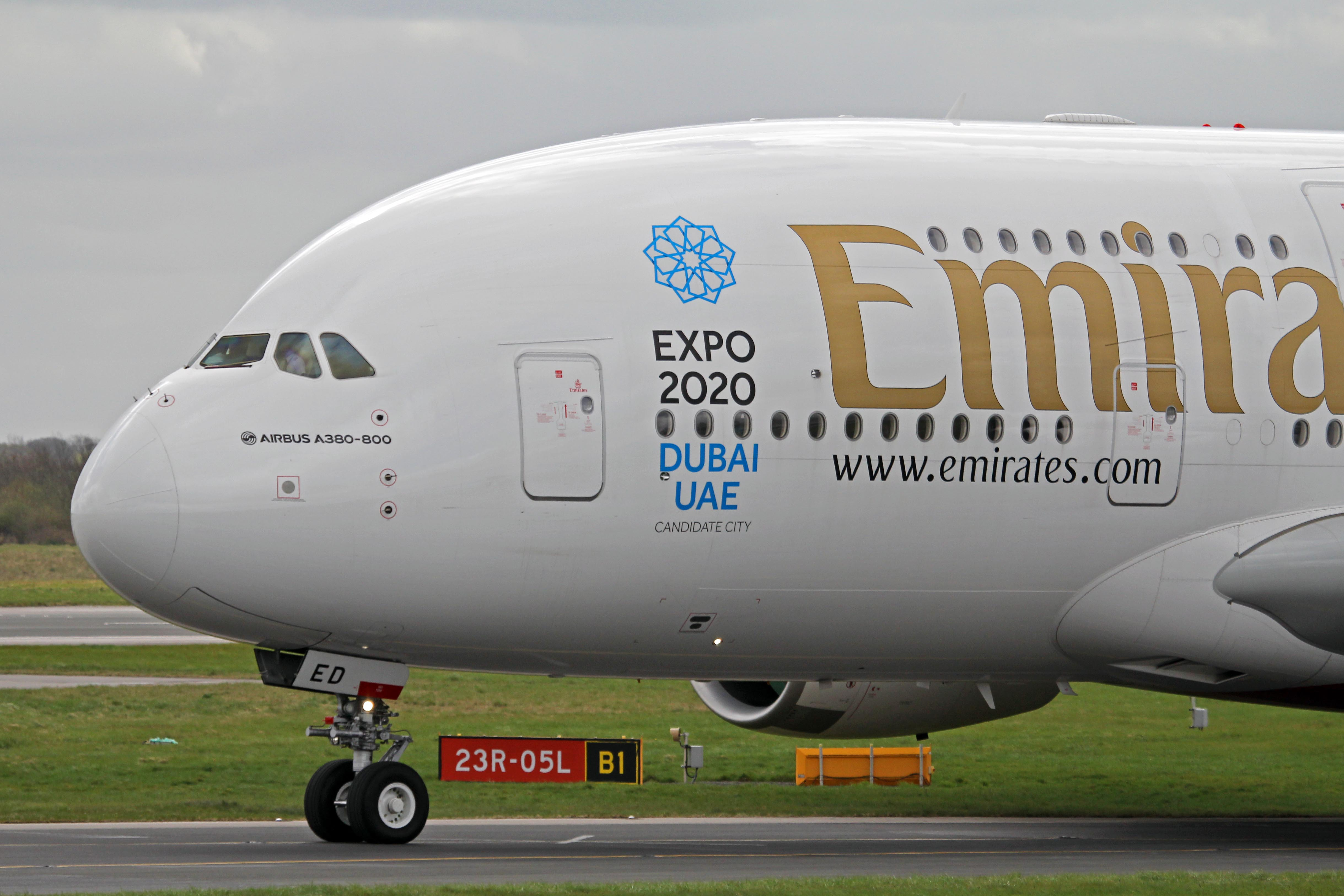 With additional 'Expo 2020 Dubai UAE, Candidate City' titles and logo.